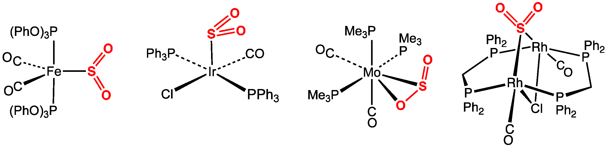 tweaked artwork on SO2 derivatives of TM cmpxes